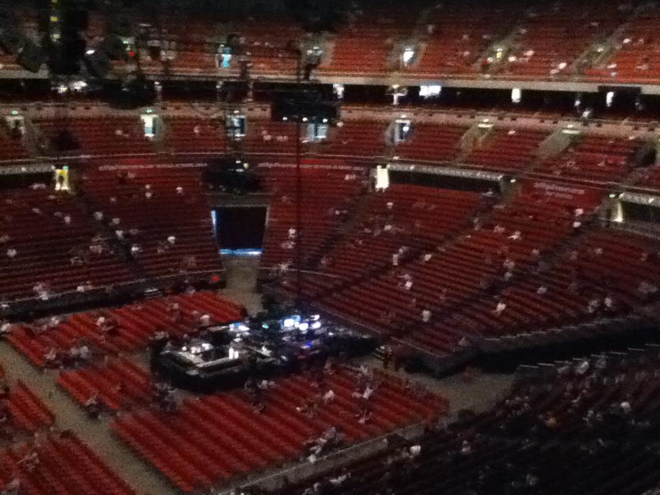 A view of the Qudos Bank Arena, known as the Allphones Arena at the time this picture was taken, in concert configuration, for the Wall Live Tour by Roger Waters in February 2012.